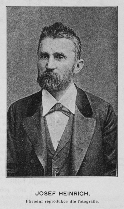 Portrait of Josef Heinrich (1837-1908), German-speaking teacher and politician from Bohemia